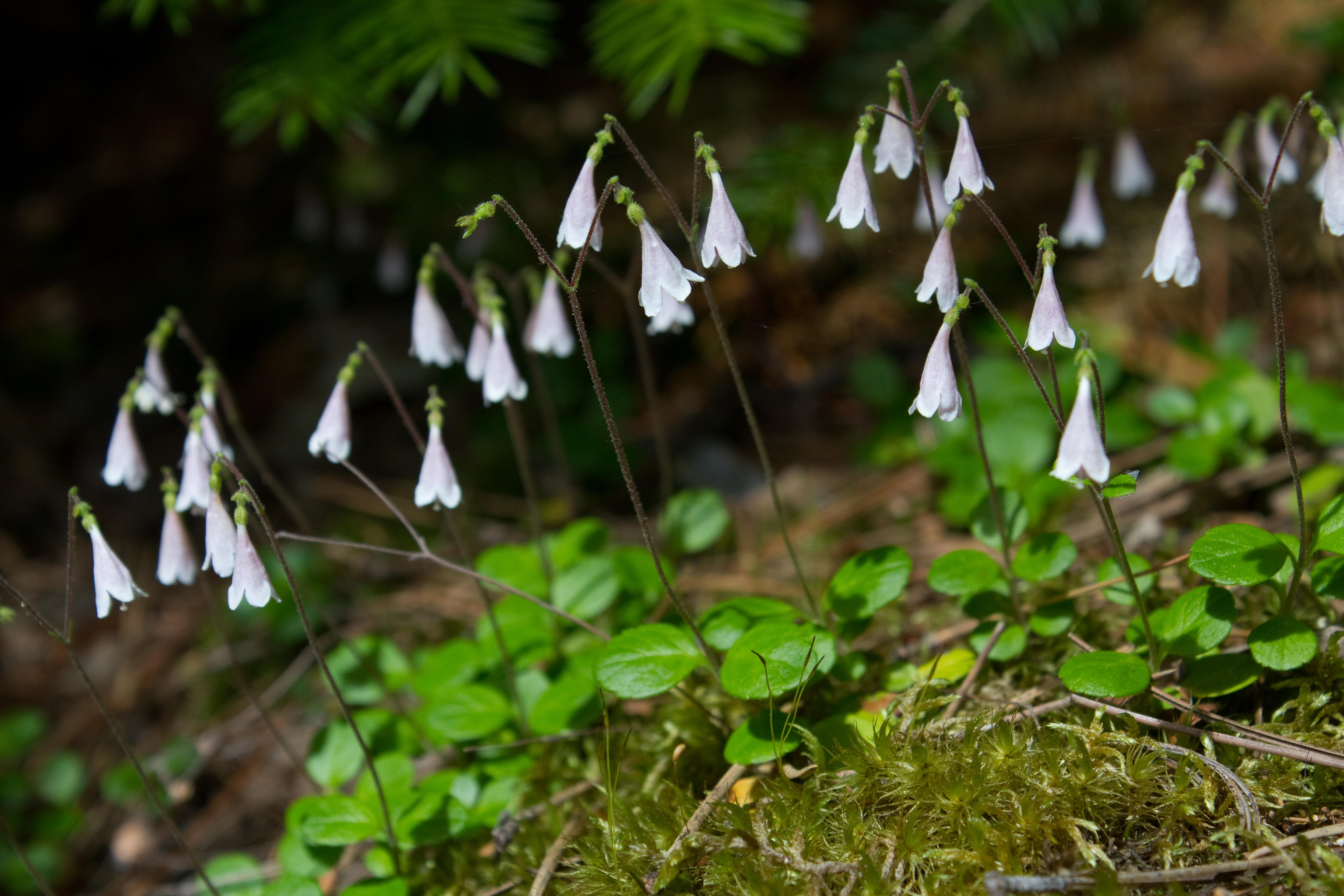 Linnaea borealis, Rainy River, Turtle River Provincial Park, Ontario, Canada.